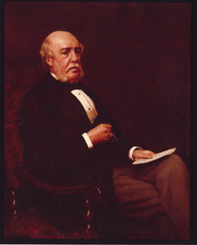 Portrait of William Henry Barlow (1812–1902), President of the Institution of Civil Engineers, 1879–1880. Original image 1880 by Hon. John Collier (1850–1934), used courtesy of the library of the Institution of Civil Engineers.